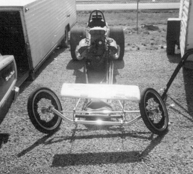 Tinker Toy, a Pete Robinson dragster at the Tulsa World Finals 1966Pete Robinson